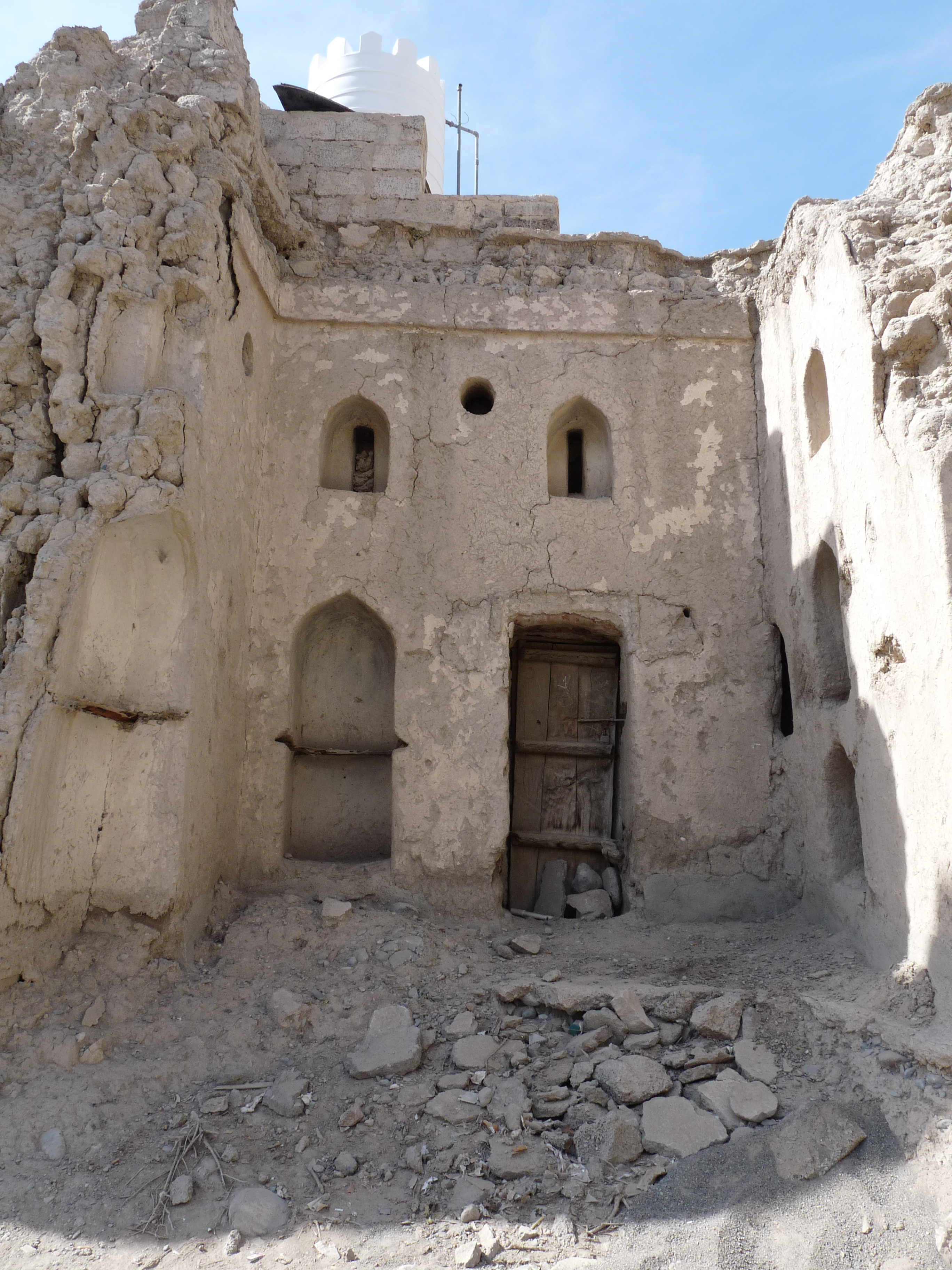 Nizwa (Oman) : remains of old town